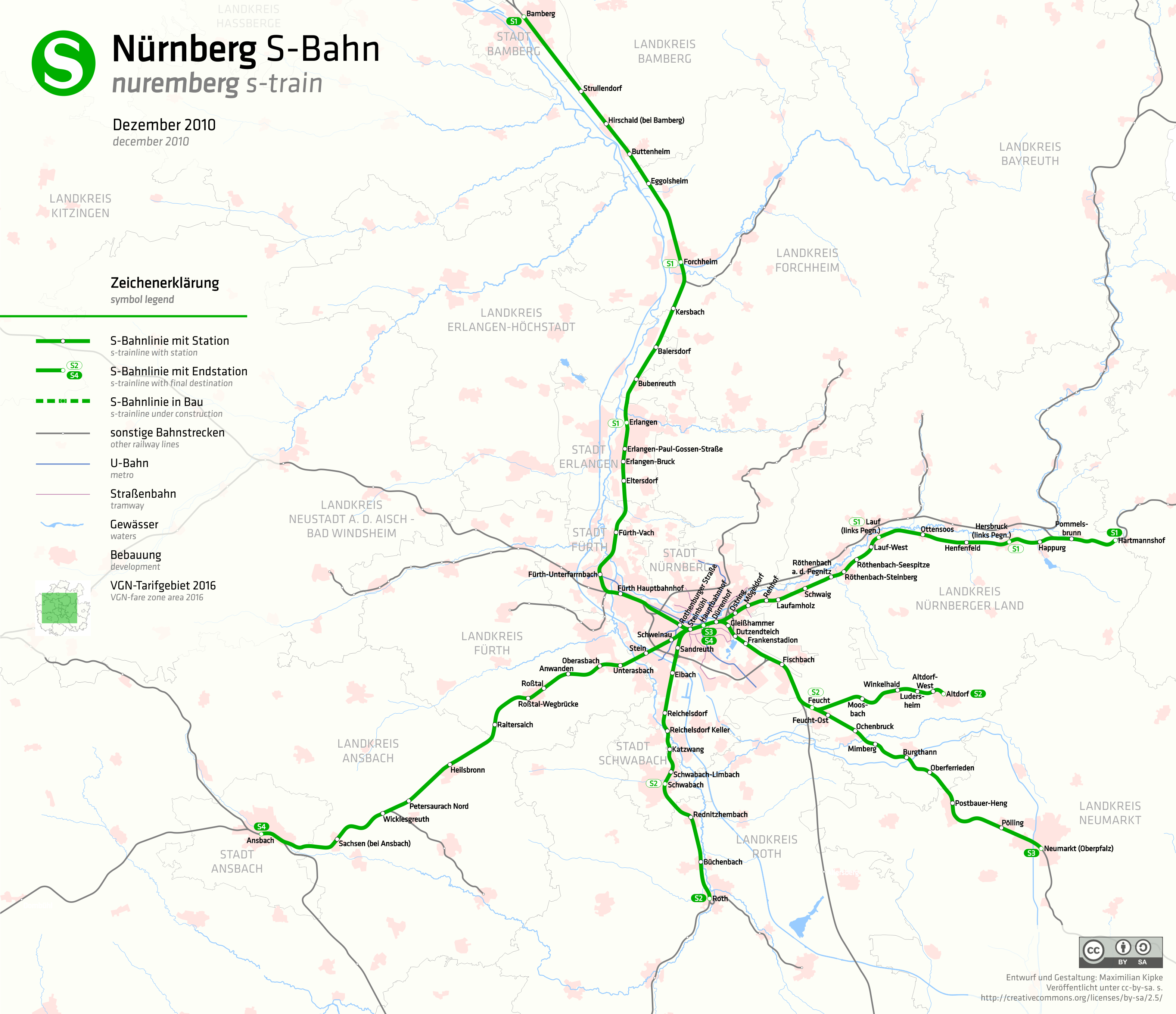 network of s-bahn nuremberg in 2010